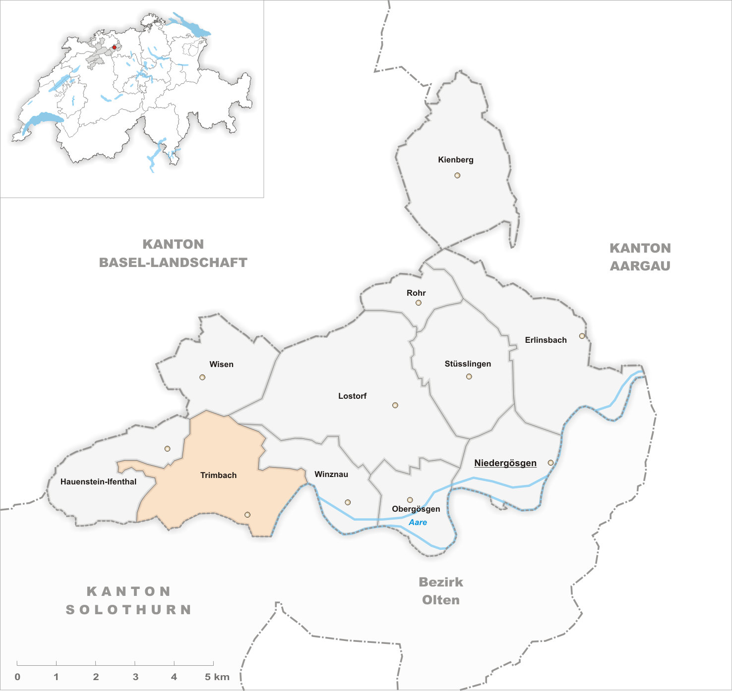 Municipality Trimbach